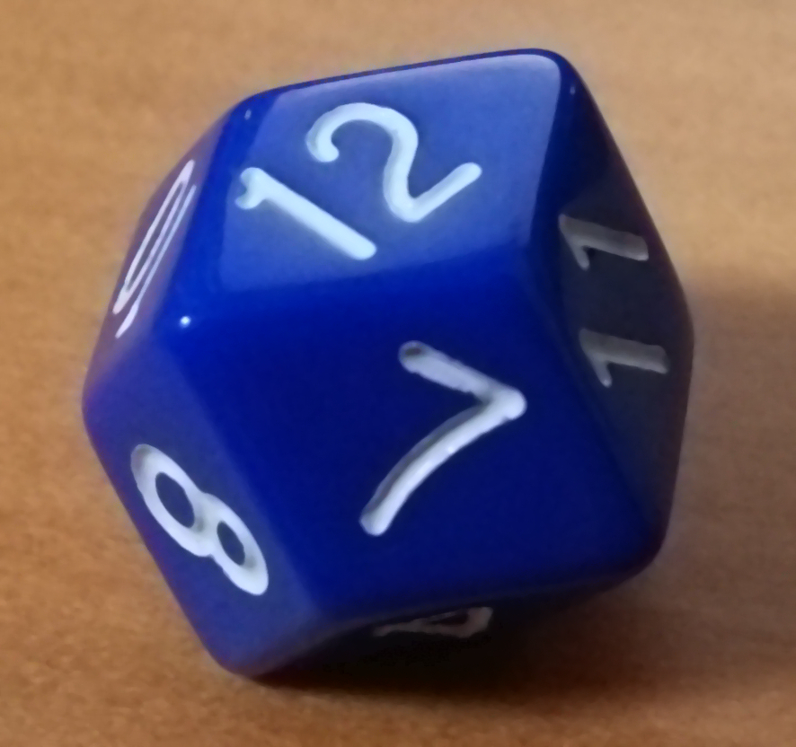 rhombic dodecahedron dice